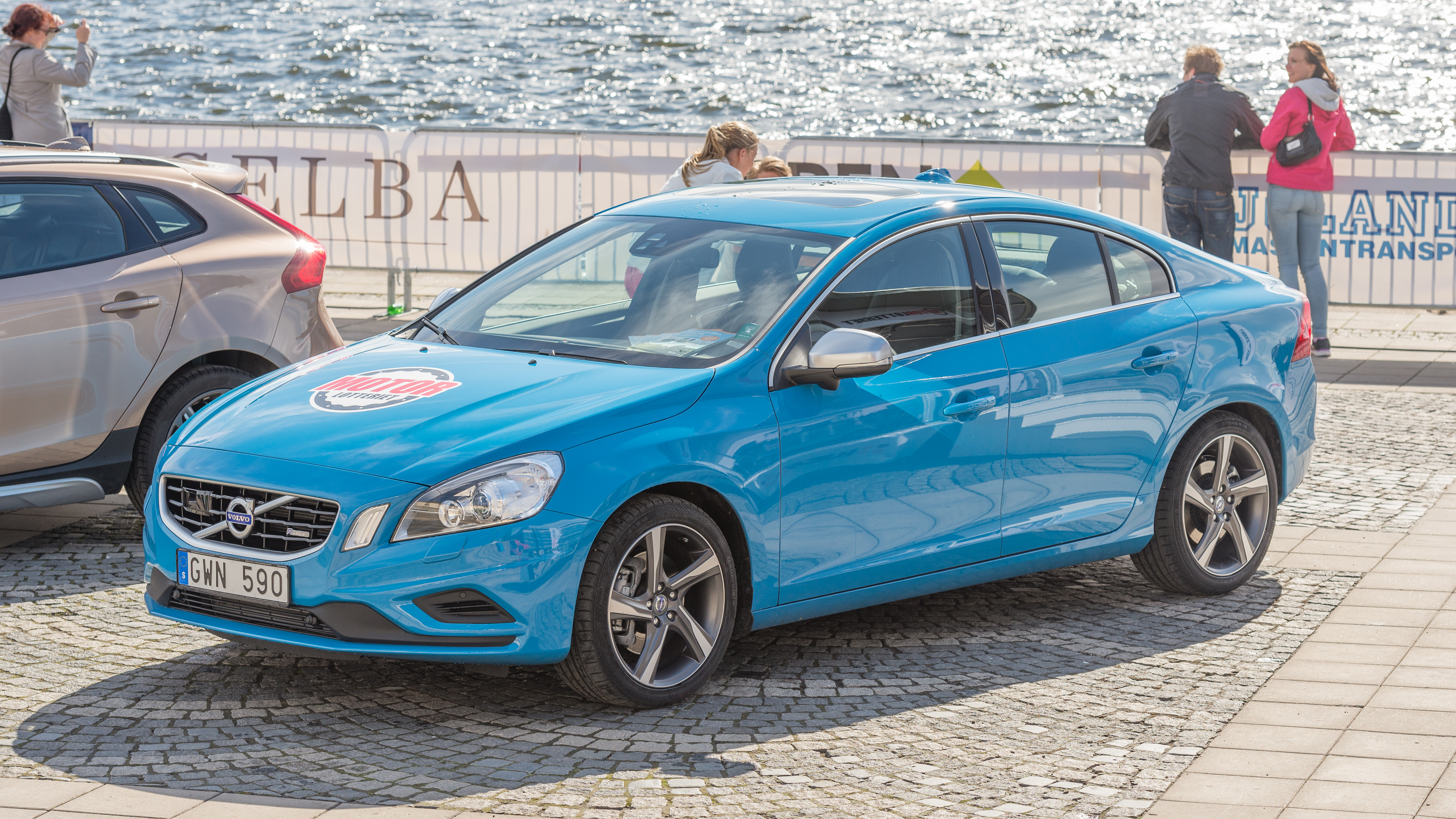 2013 Volvo S60 r-design.